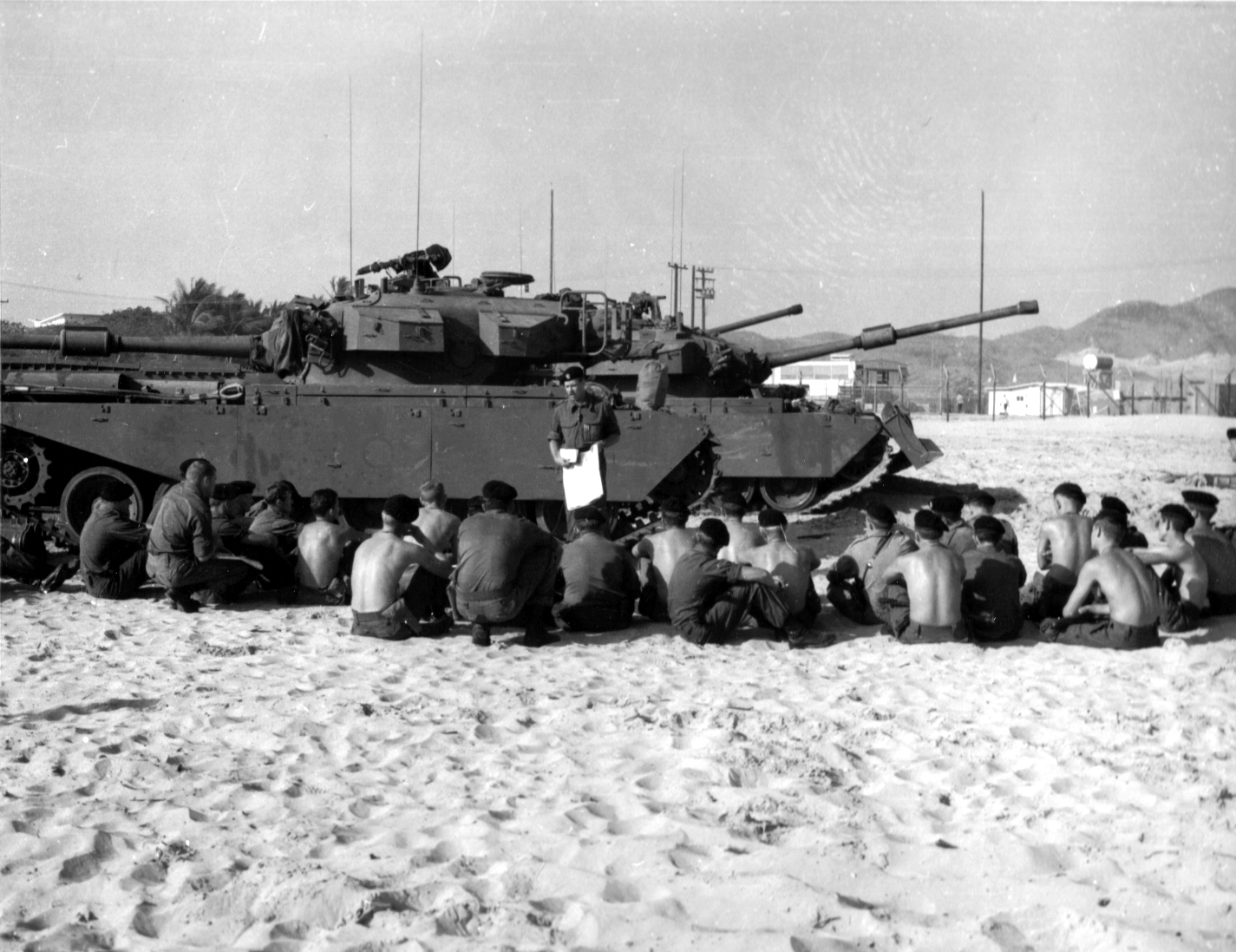 TROOPS OF 1ST AUSTRALIAN ARMOURED REGIMENT IN FRONT OF AUSTRALIAN CENTURION TANK receive briefing at Vung Tau.